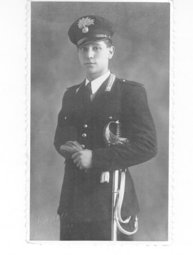 Antonio Pozzi